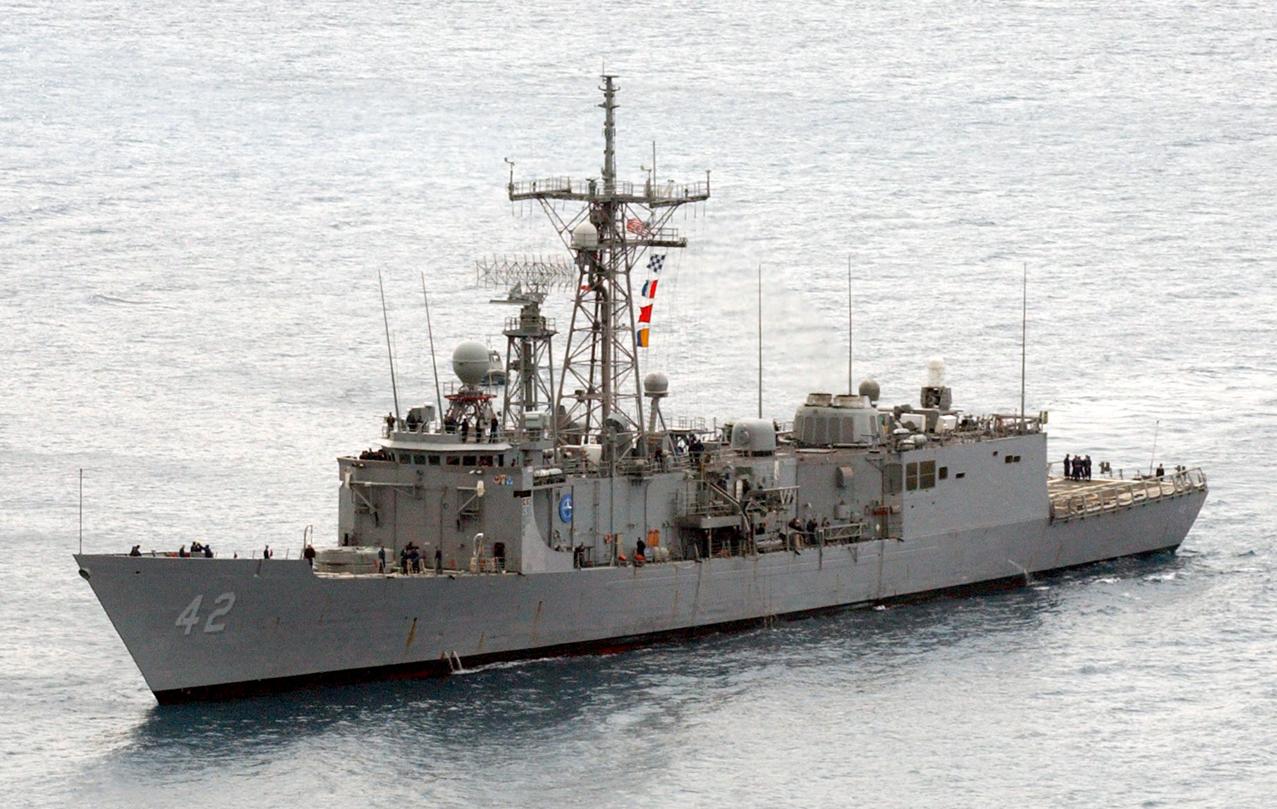 Souda Bay, Crete, Greece (Apr. 18, 2004) - The guided missile frigate USS Klakring (FFG 42) arrives for a brief port visit at Souda Bay. Klakring is assigned to NATO's Immediate Reaction Force, Standing Naval Force Atlantic (STANAVFORLANT) operating in the Eastern Mediterranean under Operation Active Endeavor. The force is NATO's maritime contribution to the fight against international terrorism. The Operation includes the compliant boarding of suspect vessels. Klakring is homeported in Mayport, Florida and is the 33rd Oliver Hazard Perry-class guided missile frigate. U.S. Navy photo by Paul Farley. (RELEASED)